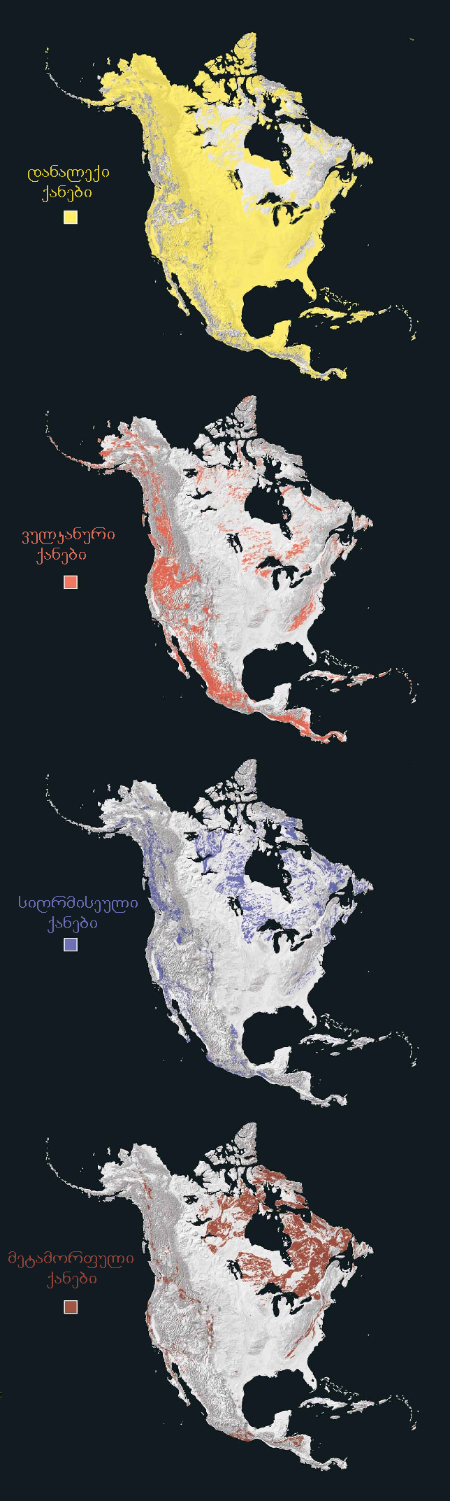 North america rock types (georgian) ჩრდილოეთ ამერიკის ქანები